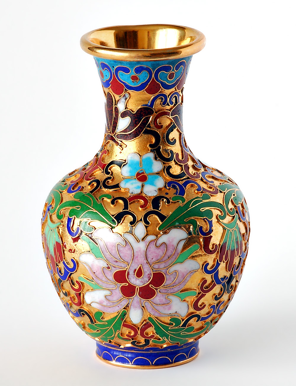 This image shows an hand-made chinese vase.